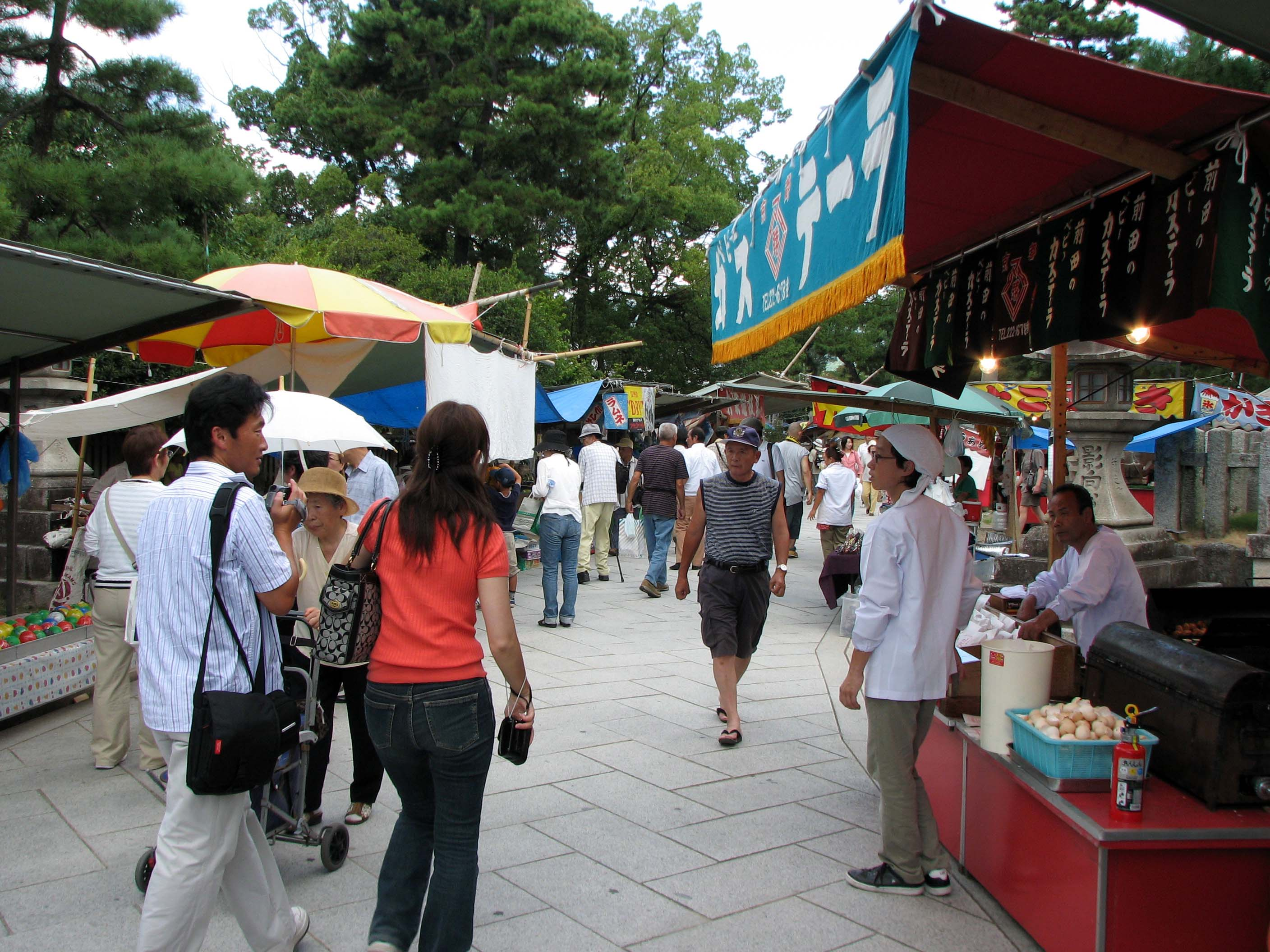 The famous flea market at the Kitano-tenmangu